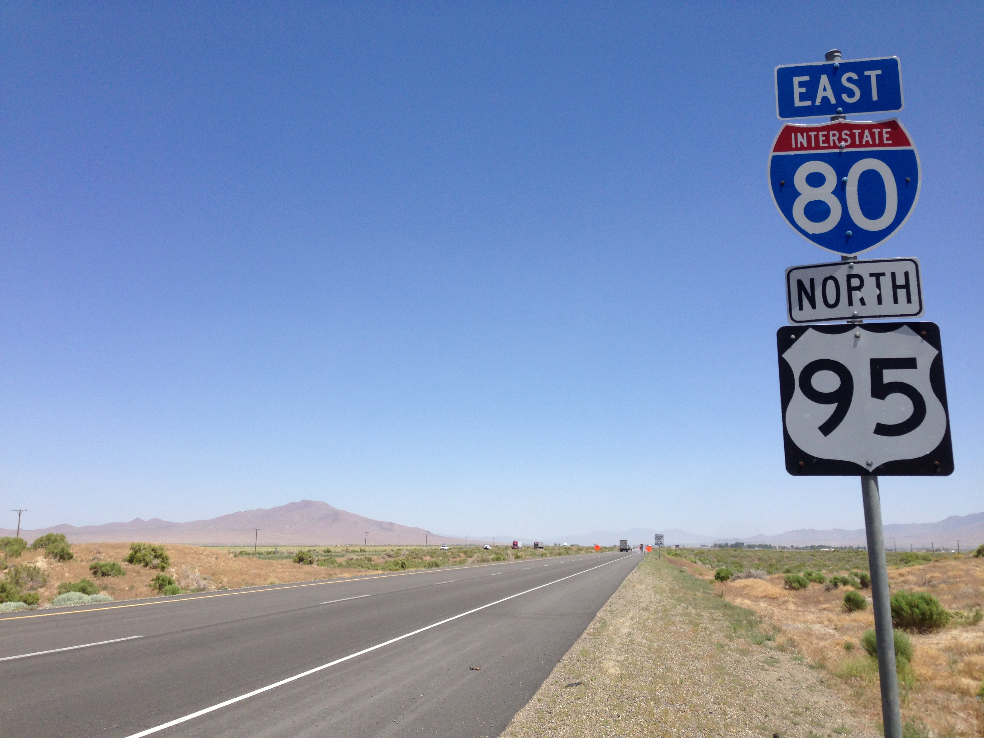 Reassurance signs along eastbound Interstate 80 and northbound U.S. Route 95 in Rose Creek, Nevada